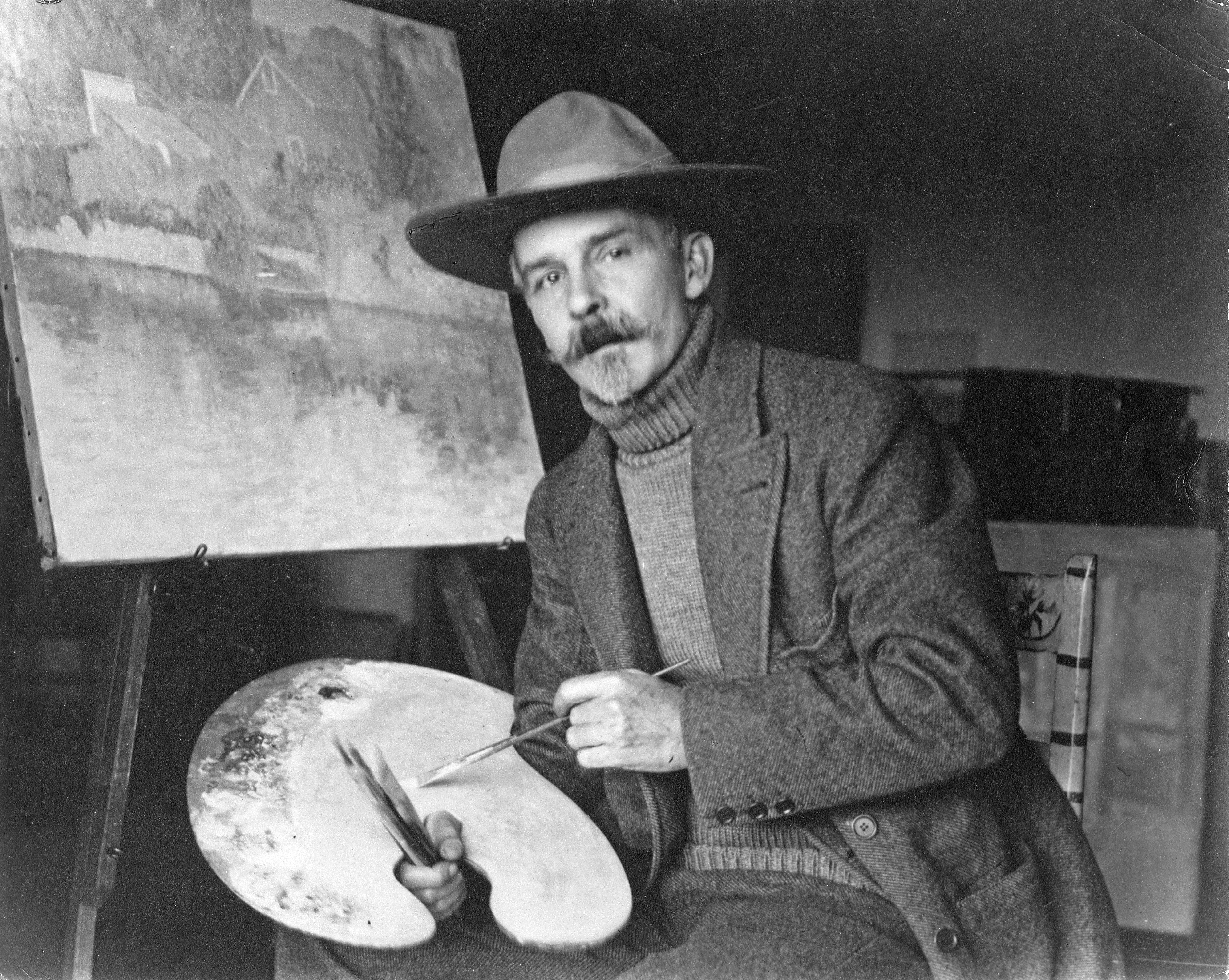 Description: Published in: Archives of American Art Journal v. 27, no. 2, p. 15; v. 36, no. 3-4, p. 27. Taylor, Henry Fitch, 1853-1925 Creator/Photographer: Henry Fitch Taylor Birth Date: 1853 Death Date: 1925 Medium: Black and white photographic print Dimensions: 27 cm x 34 cm Date: c. 1900 Persistent URL: Repository: Archives of American Art Collection: 1913 Armory Show, 50th anniversary exhibition records, 1962-1963 Accession number: aaa_munswilp_4886